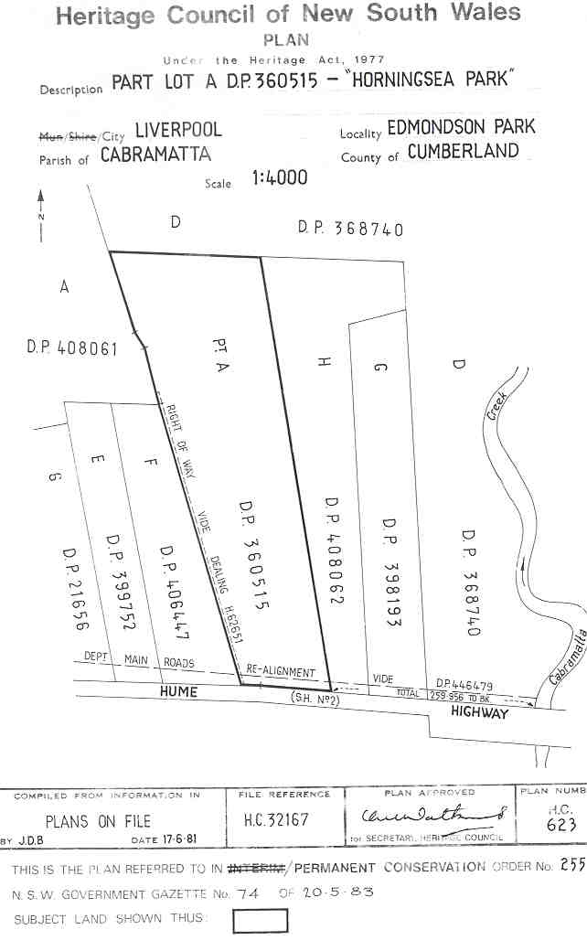 Horningsea Park: PCO Plan Number 255